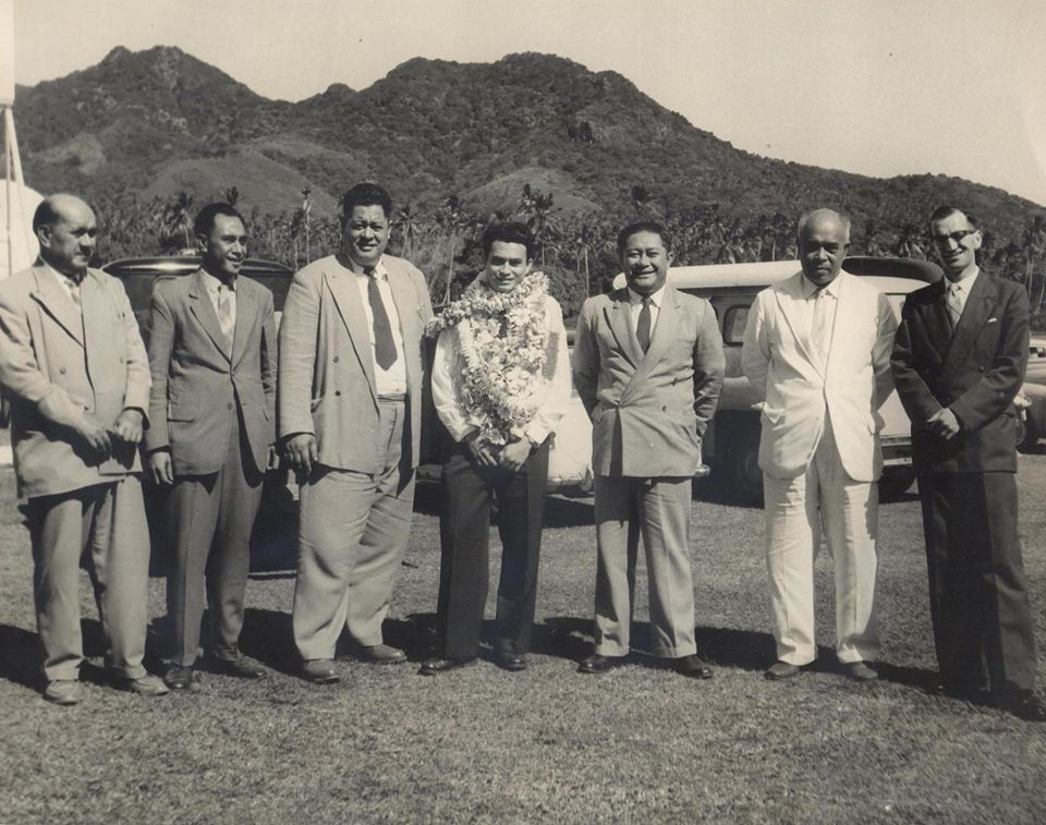 The Executive Committee of the Cook Islands legislature in 1962, photographed the day after their election. The photo was taken on Thursday 12th July 1962. The Hon. William Estall (with the eis) was one of the 3 Cook Islands representatives attending the South Pacific Conference in Pago Pago and this photo was taken at the airstrip prior to his departure via RNZAF Hastings for Samoa From Left to Right DC Brown, T Tangaroa, T Tuavera, W Estall, V Rere, Ngatupuna Matepi, Les Bailey